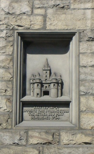 Site of the Netherbow Port This sculptured plaque on a building in the Royal Mile is close to the spot once occupied by the city gate known as the Netherbow Port. The original gate formed part of the Flodden Wall, built between 1514 and 1560, which divided Edinburgh from the neighbouring burgh of Canongate. It was blasted by cannon-fire during Hertford's invasion of 1544 and rebuilt in 1571. It was later replaced by a new structure in 1606, as shown on the plaque, which was closely modelled on the Porte de St. Honoré in Paris. Demolished in 1764, its clock was saved for the Orphan Hospital, now part of the Gallery of Modern Art at Dean.